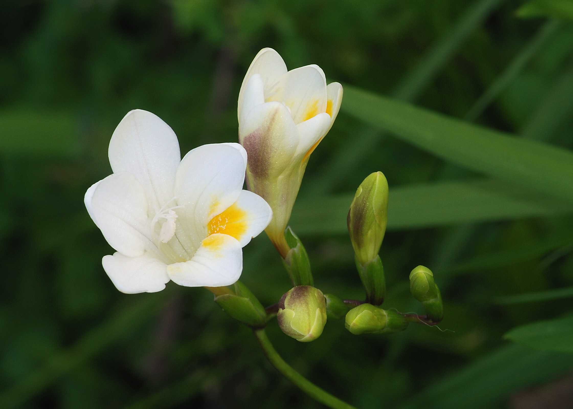 Freesia alba flowers and buds